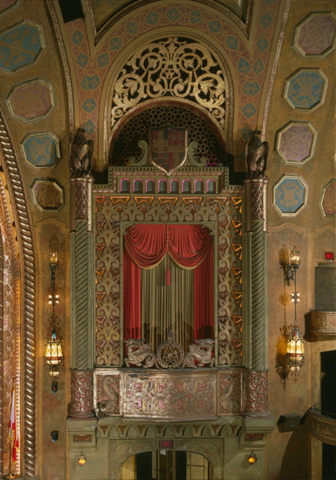 Alabama Theatre, 1811 Third Avenue North, Birmingham, Jefferson, AL.